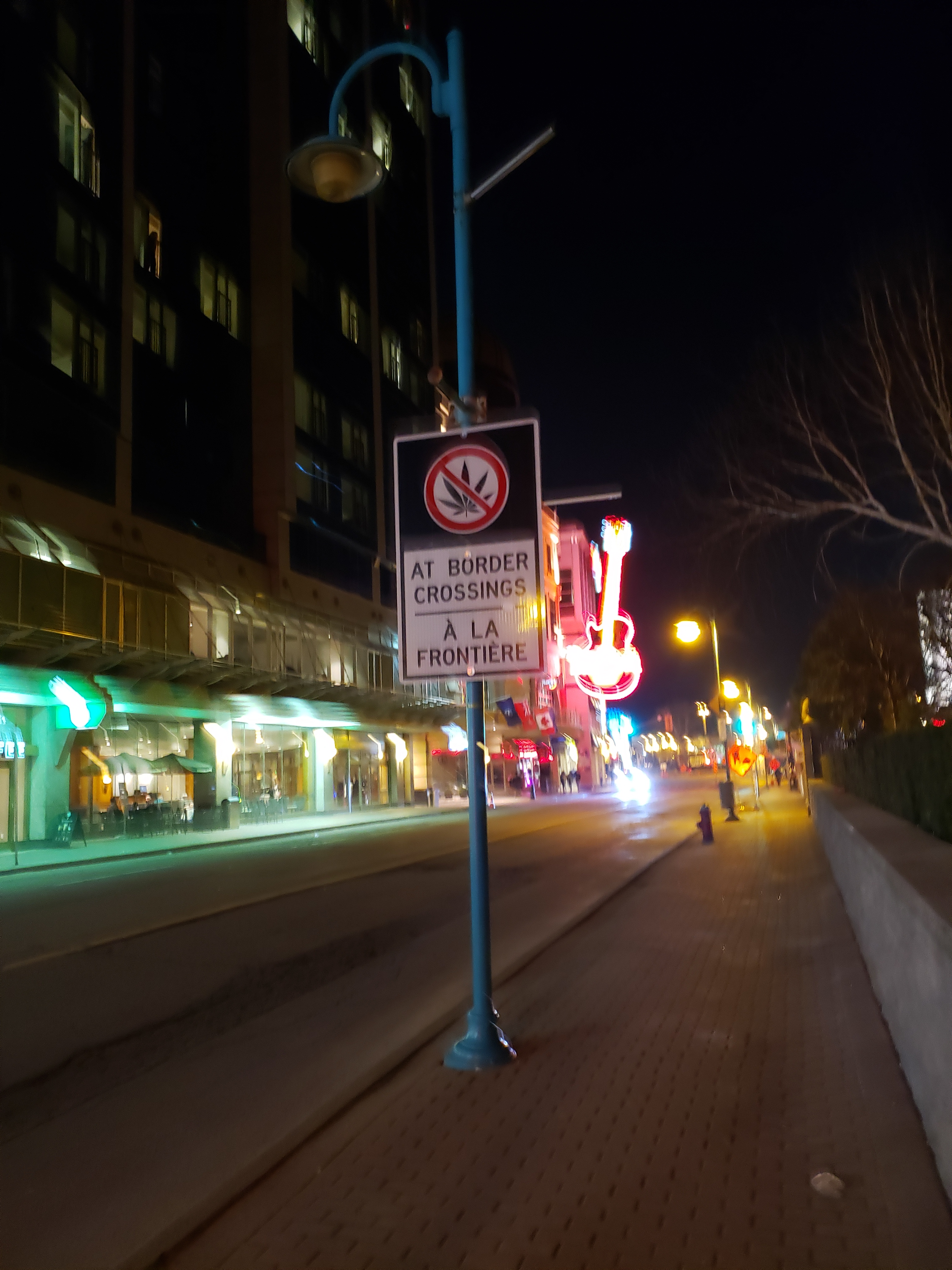 A sign on Falls Avenue in Niagara Falls, Ontario, Canada warning people not to carry marijuana into the United States.